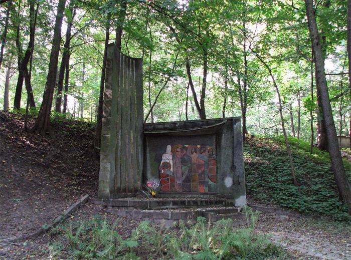 Calvary in Katowice Panewniki, Chapel of the Rosary - The second glorious mystery "Ascension". Completed in 1963.